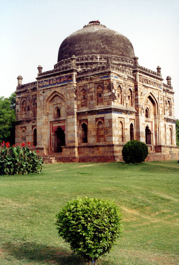 A mausoleum called the Sheesh Gumbad (glass dome) for its internal glass decorations at Lodhi Gardens, Delhi, India.